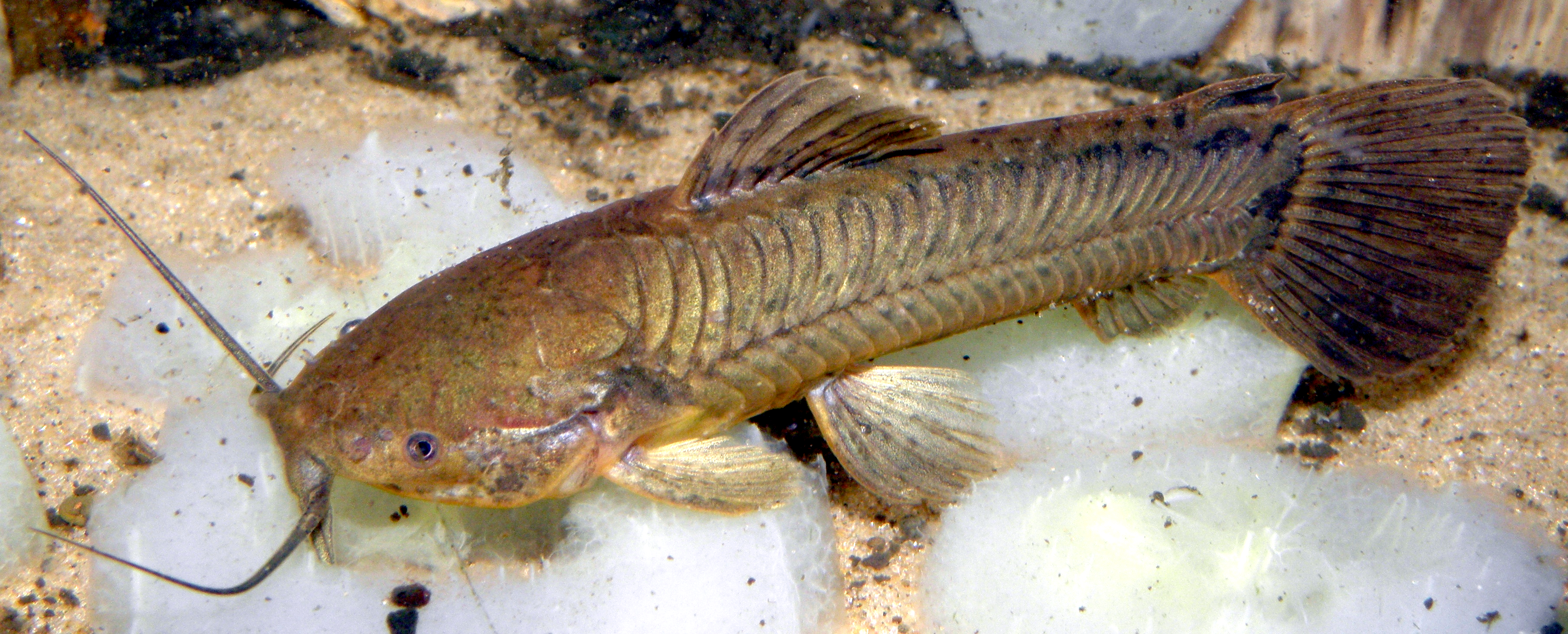 The cascarudo, armored catfish, bubblenest catfish, hassar, or mailed catfish (Callichthys callichthys).